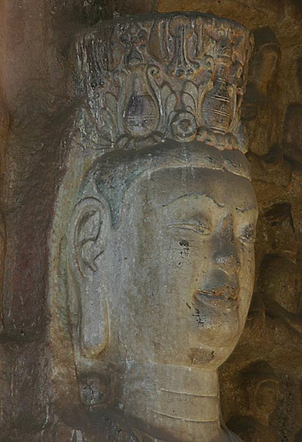 Detail of the head of an attendant Bodhisattva, Tuoshan, Qingzhou, Shandong, China.